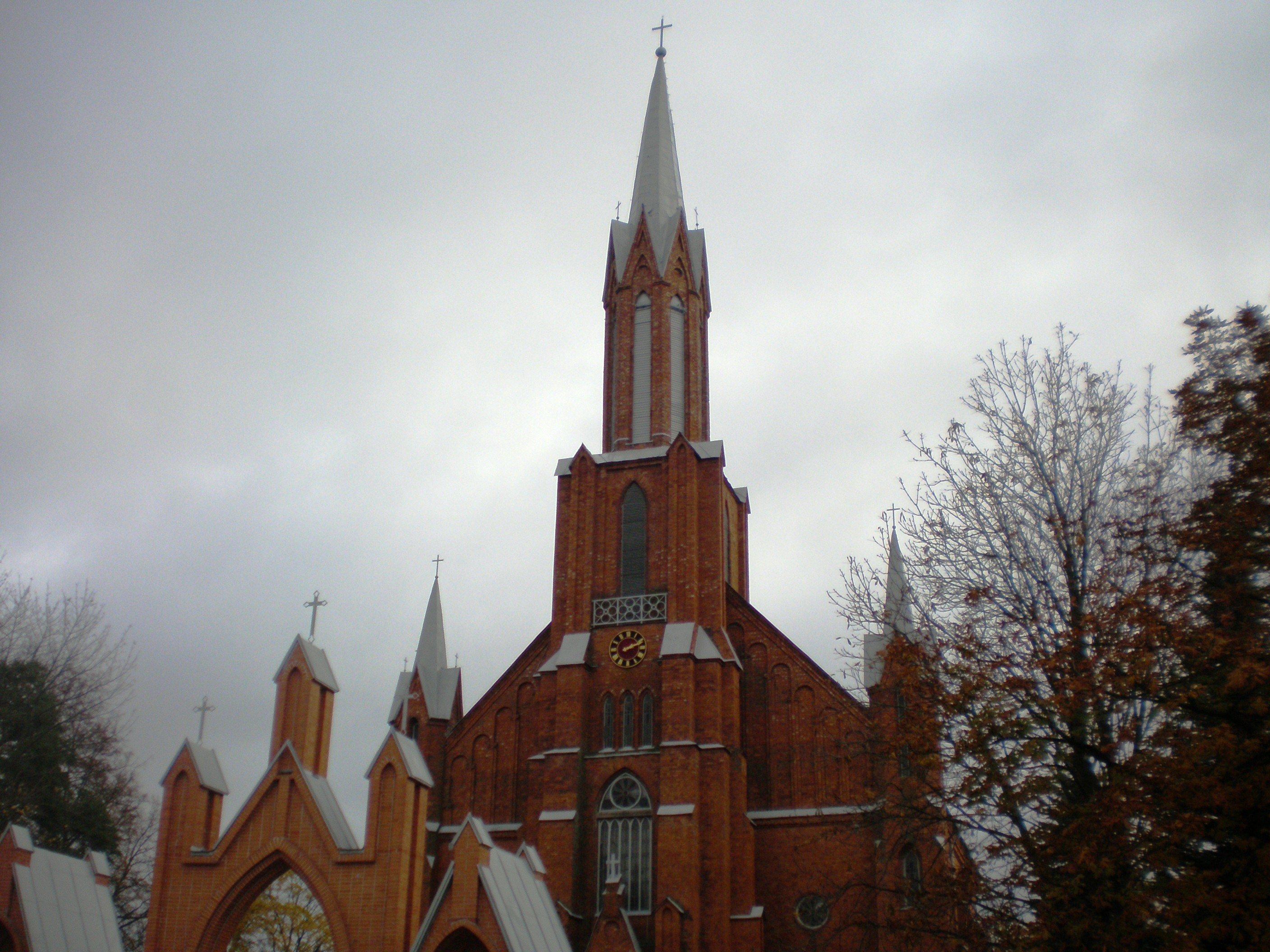 The church of Kaišiadorys